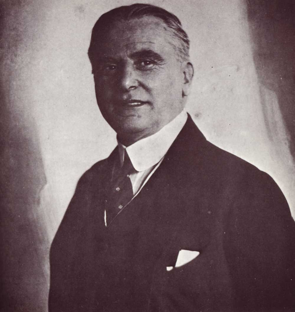 Heinz Rudolph Unger photograph of Franz Von Bayros from 1898.